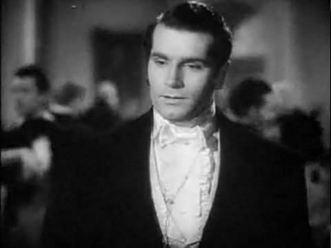 Cropped screenshot of Laurence Olivier from the trailer for the film Pride and Prejudice.